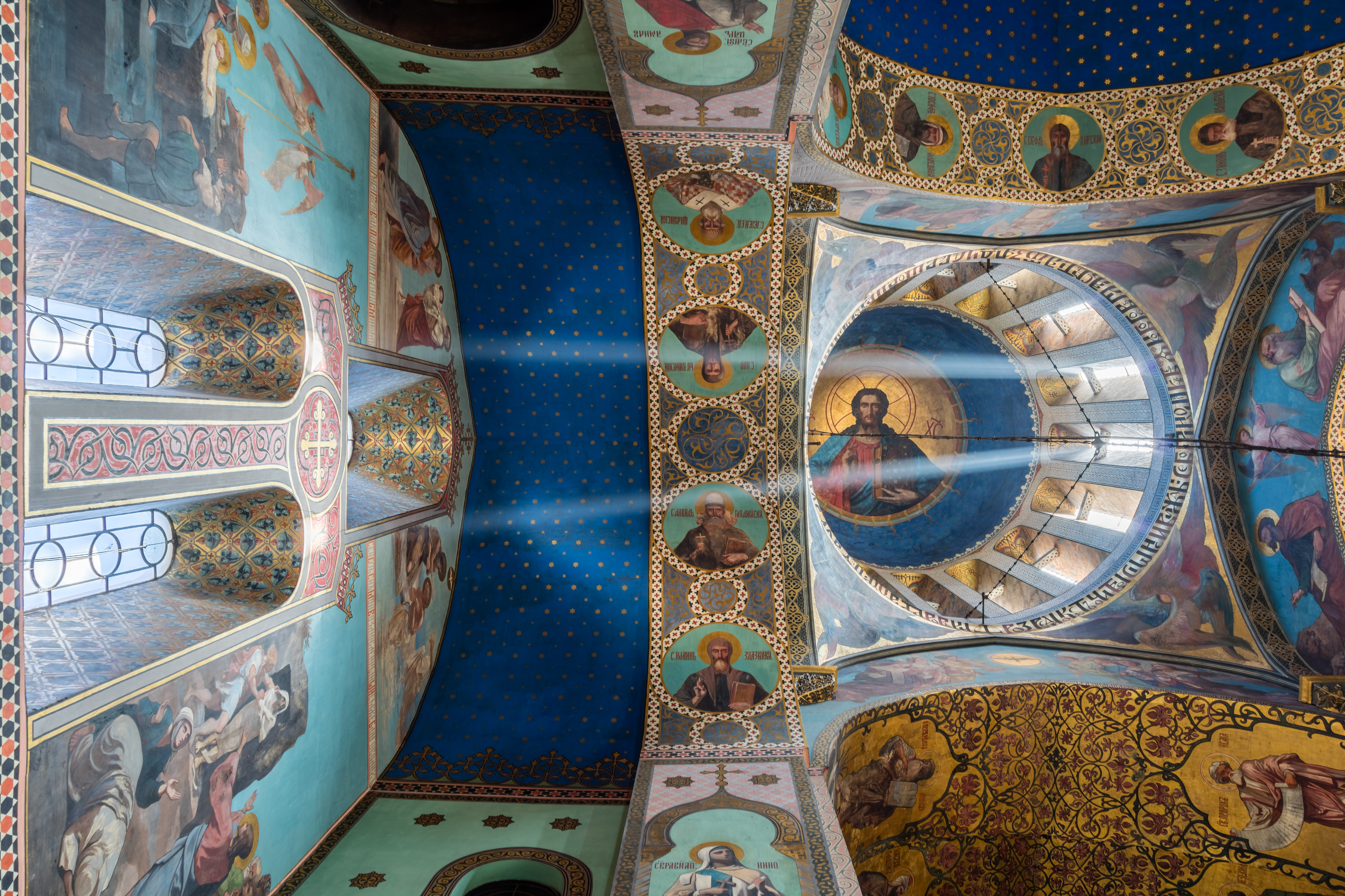 Ceiling of the Sioni Cathedral, a Georgian Orthodox cathedral in Tbilisi, capital of Georgia. The cathedral is situated in historic Sionis Kucha (Sioni Street) in downtown Tbilisi. It was initially built in the 6th and 7th centuries. Since then, it has been destroyed by foreign invaders and reconstructed several times. The current church is based on a 13th-century version with some changes from the 17th to 19th centuries. The Sioni Cathedral was the main Georgian Orthodox Cathedral and the seat of Catholicos-Patriarch of All Georgia until the Holy Trinity Cathedral was consecrated in 2004.